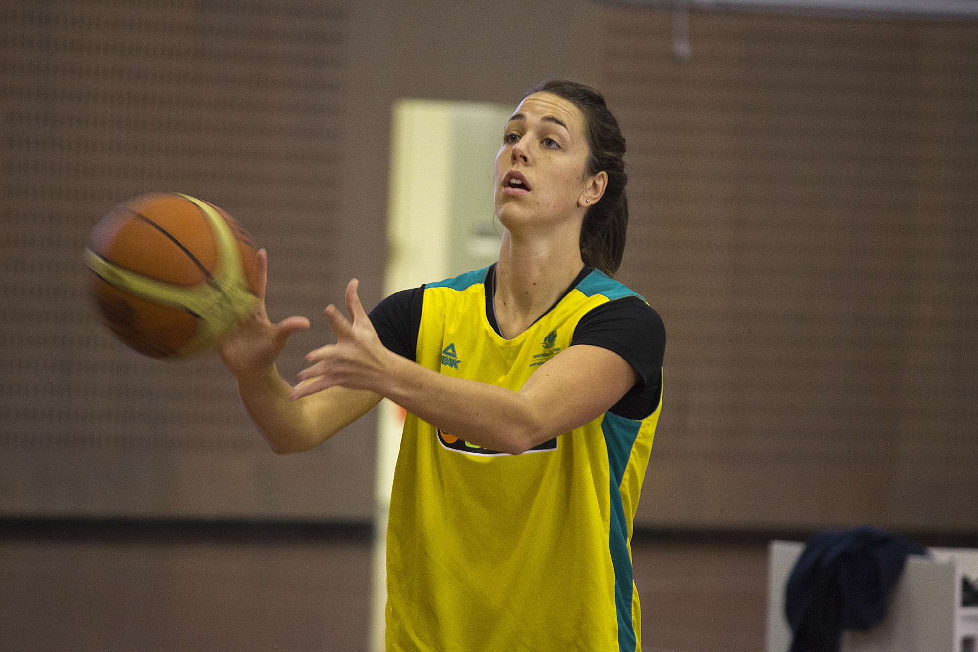 Jenna O'Hea at day three of the Opals camp.